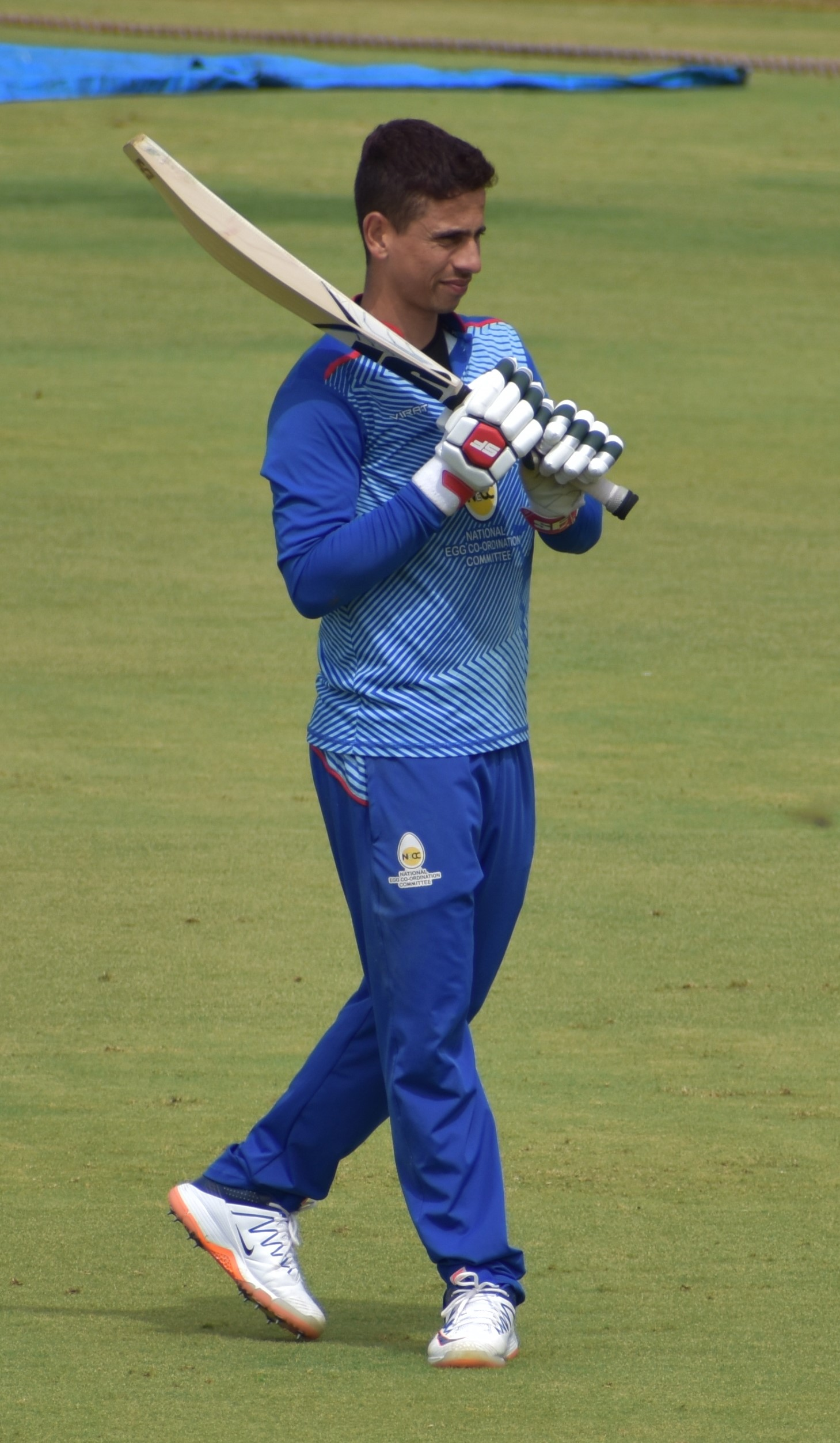 Indian cricketer Siddhesh Lad during the 2019-20 Vijay Hazare Trophy in Alur, Bangalore.